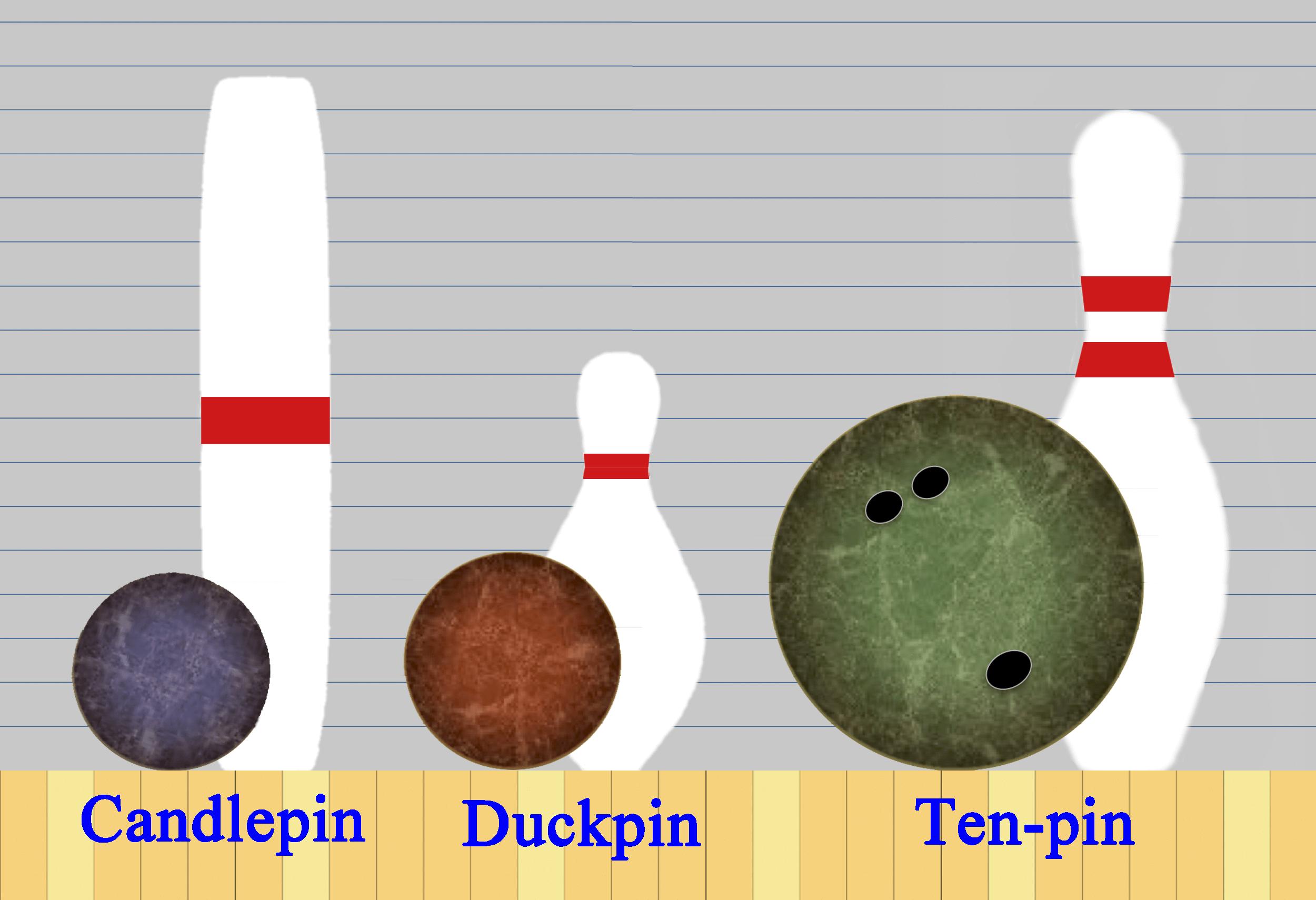 Diagram showing relative sizes of bowling balls and bowling pins for three popular types of bowling. Scale: the horizontal blue lines are one inch apart vertically.